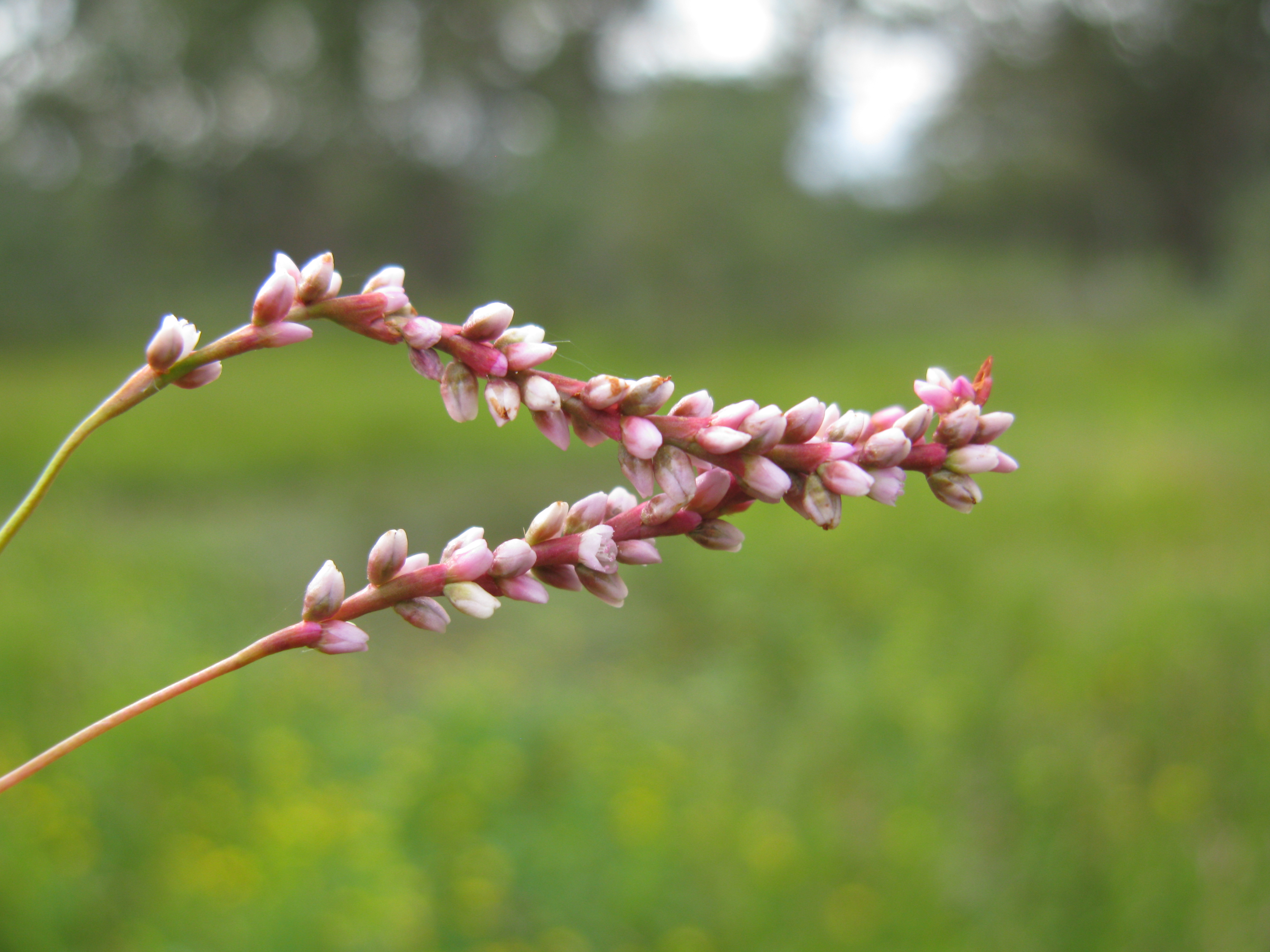 Native, warm season, annual or perennial, creeping or ascending herb to 30 cm tall; its slender stems die back over winter. Leaves are 5-12 cm long, lance-shaped and usually have a purple blotch on the middle of the top surface; ochreas (sheaths encircling the nodes) have hairs 2-10 mm long. Flowerheads are 2-6cm long, slender and loose; with small pale to deep-pink (rarely white) flowers. Flowering is from spring to autumn. Widespread and common in damp places such as drainage lines, swamp margins and periodically flooded areas, especially on the floodplains. Is a common understorey of healthy red gum forests. Spreads by seed and broken stems. Seeds are an important food for waterbirds. Plants provide habitat for birds and other native animals, and help stabilise streambanks. Contains an unknown toxin that can cause liver inflammation and photosensitive-dermatitis in livestock and humans, but is not readily grazed as it has acrid leaves. When plants are grazed, it indicates grazing levels are too high.